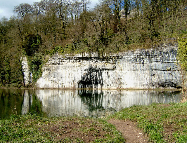 River Wye above Cressbrook Mill Limestone cliff just upstream from the weir at Cressbrook Mill.